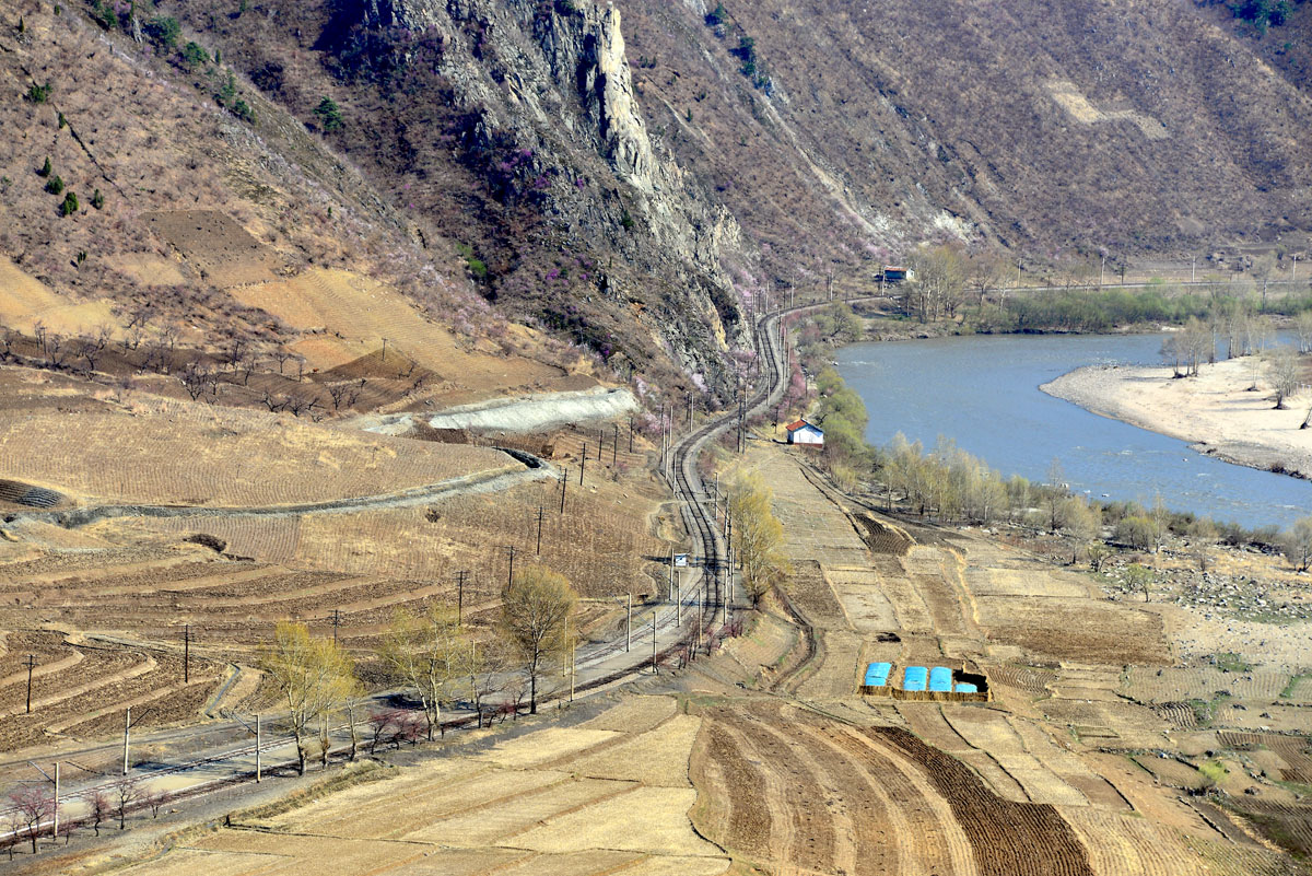 The Hambuk Line railway near Kanpyong, North Korea